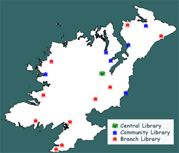 County Donegal Library Locations My own picture from a chart